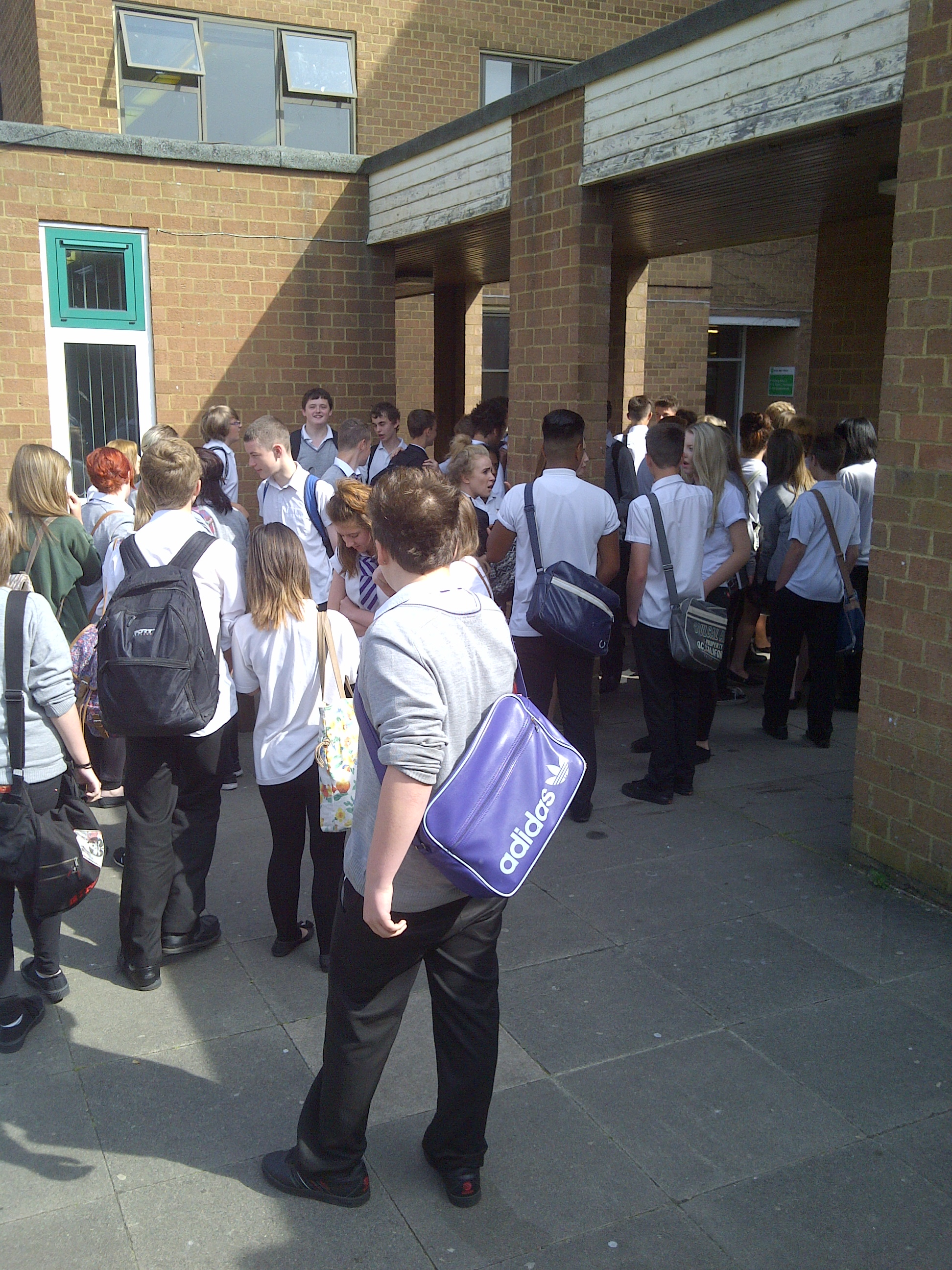 Photograph of the Greenerputsch